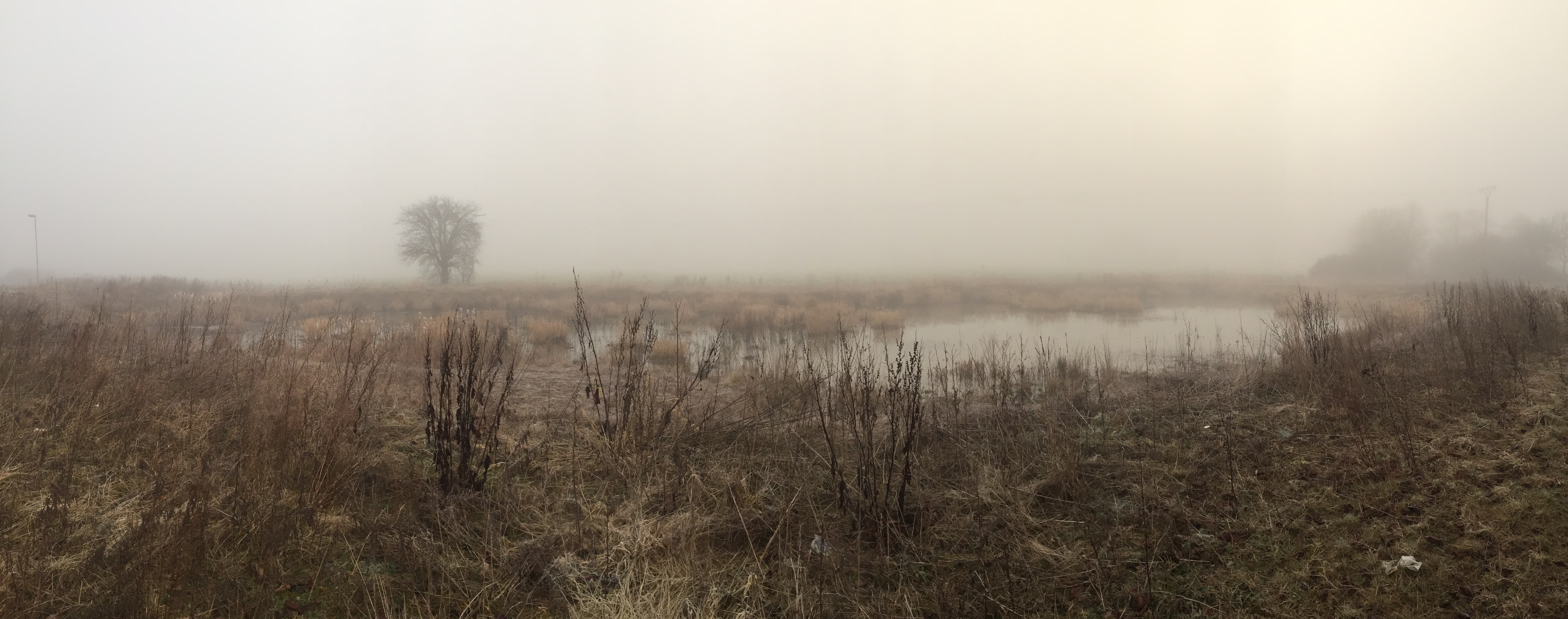 Area of the "Lahnaltarm of Bellnhausen" nature reserve during morning fog in early March